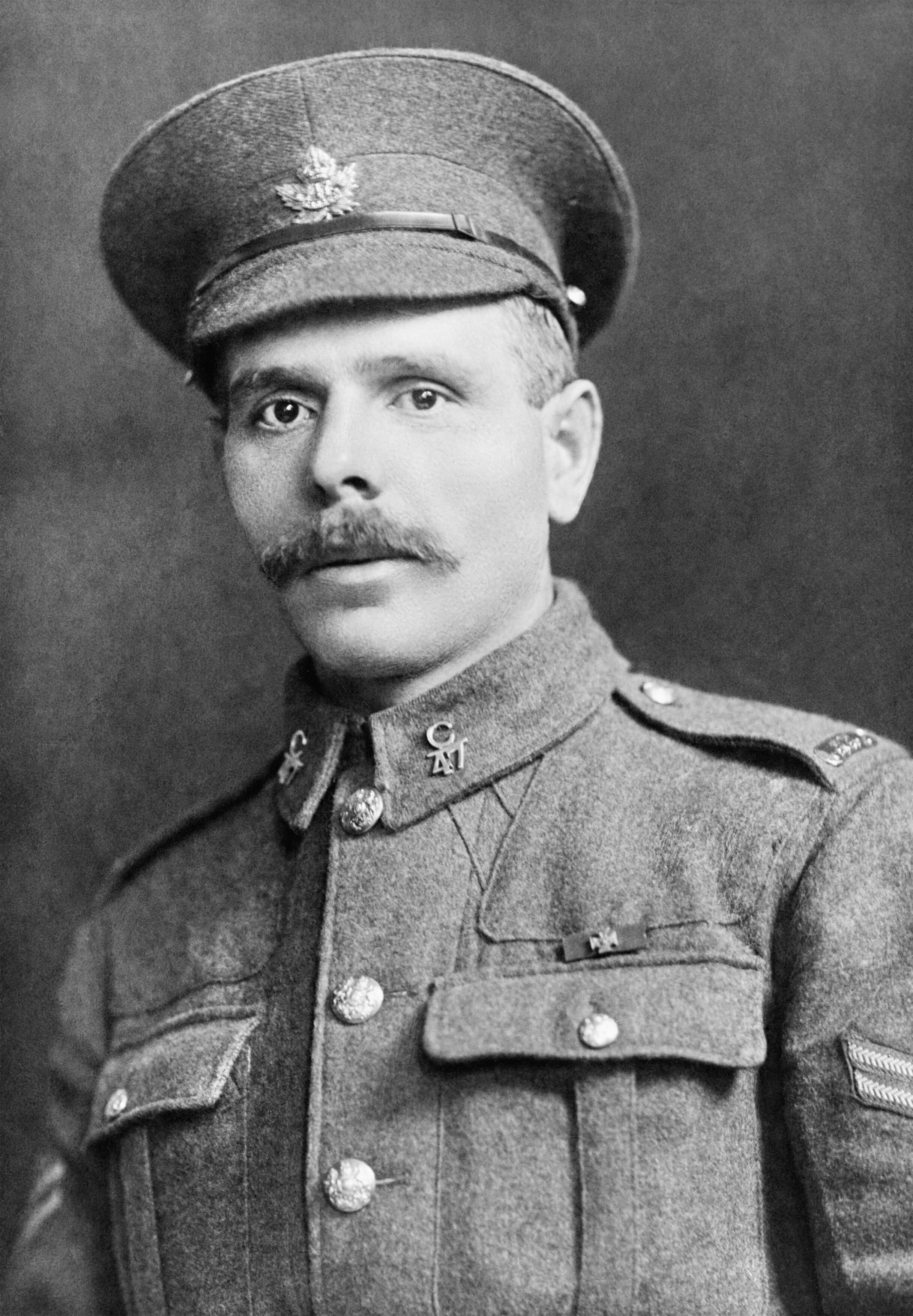 Corporal Konowal was awarded the Victoria Cross (VC) at the Battle of Hill 70 in Lens, France for the following actions during 22- 24 August 1917: "For most conspicuous bravery and leadership when in charge of a section in attack. His section had the difficult task of mopping up cellars, craters and machine-gun emplacements. Under his able direction all resistance was overcome successfully, and heavy casualties inflicted on the enemy. In one cellar he himself bayonetted three enemy and attacked single-handed seven others in a crater, killing them all. On reaching the objective, a machine-gun was holding up the right flank, causing many casualties. Cpl. Konowal rushed forward and entered the emplacement, killed the crew, and brought the gun back to our lines. The next day he again attacked single-handed another machine-gun emplacement, killed three of the crew, and destroyed the gun and emplacement with explosives. This non-commissioned officer alone killed at least sixteen of the enemy, and during the two days' actual fighting carried on continuously his good work until severely wounded." Konowal, who was born in Kutkivtsi, Ukraine, is the only Ukrainian recipient of the VC. He served with the Canadian Expeditionary Force during 1915 - 1919 and spent the rest of his life in Canada. He died in Quebec in 1959.